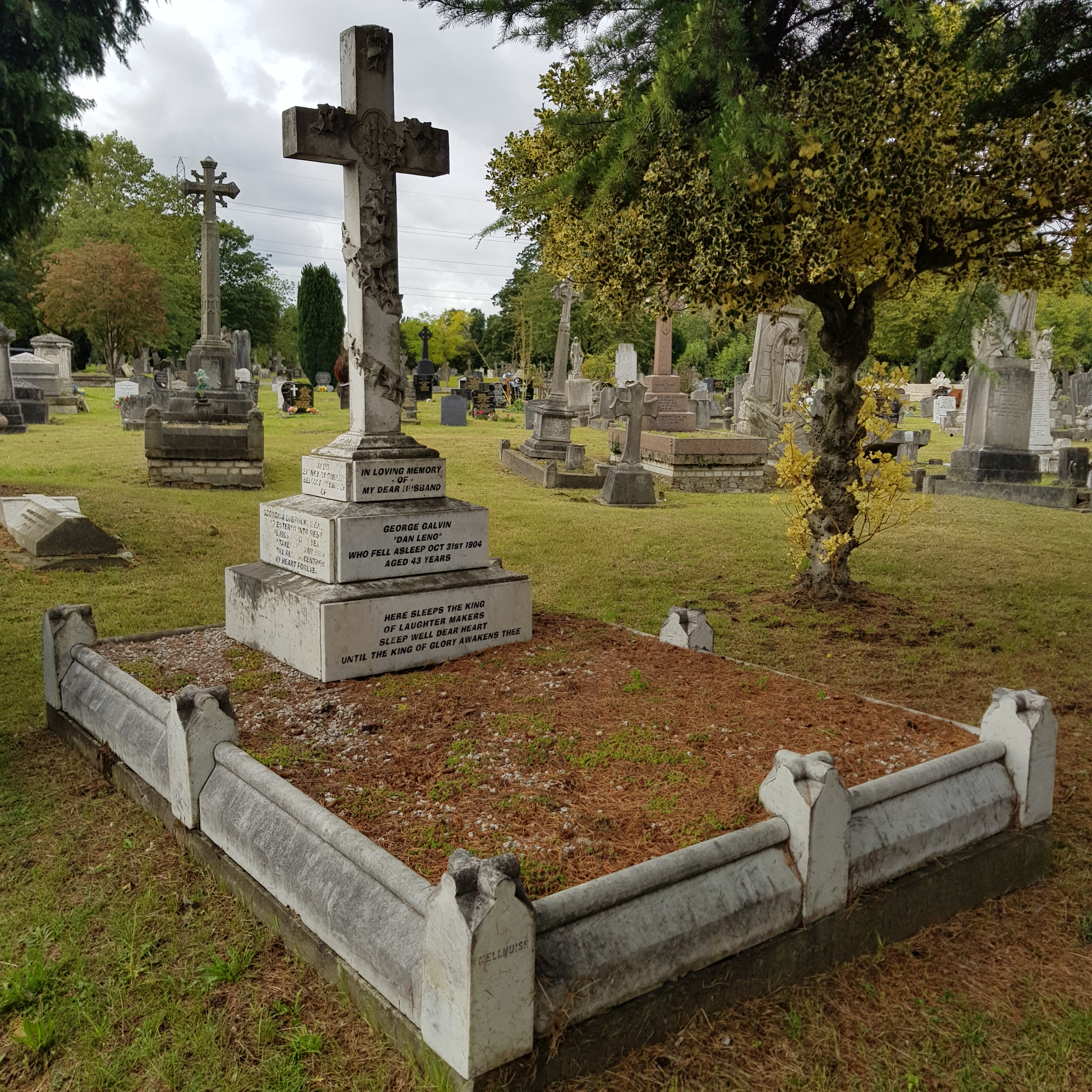 Grave of Dan Leno, Lambeth Cemetery, Tooting, London